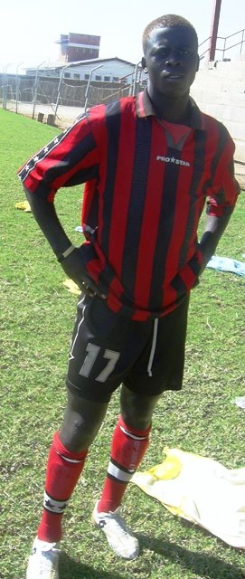 Zambian football player Chisamba Lungu from Zanaco FC